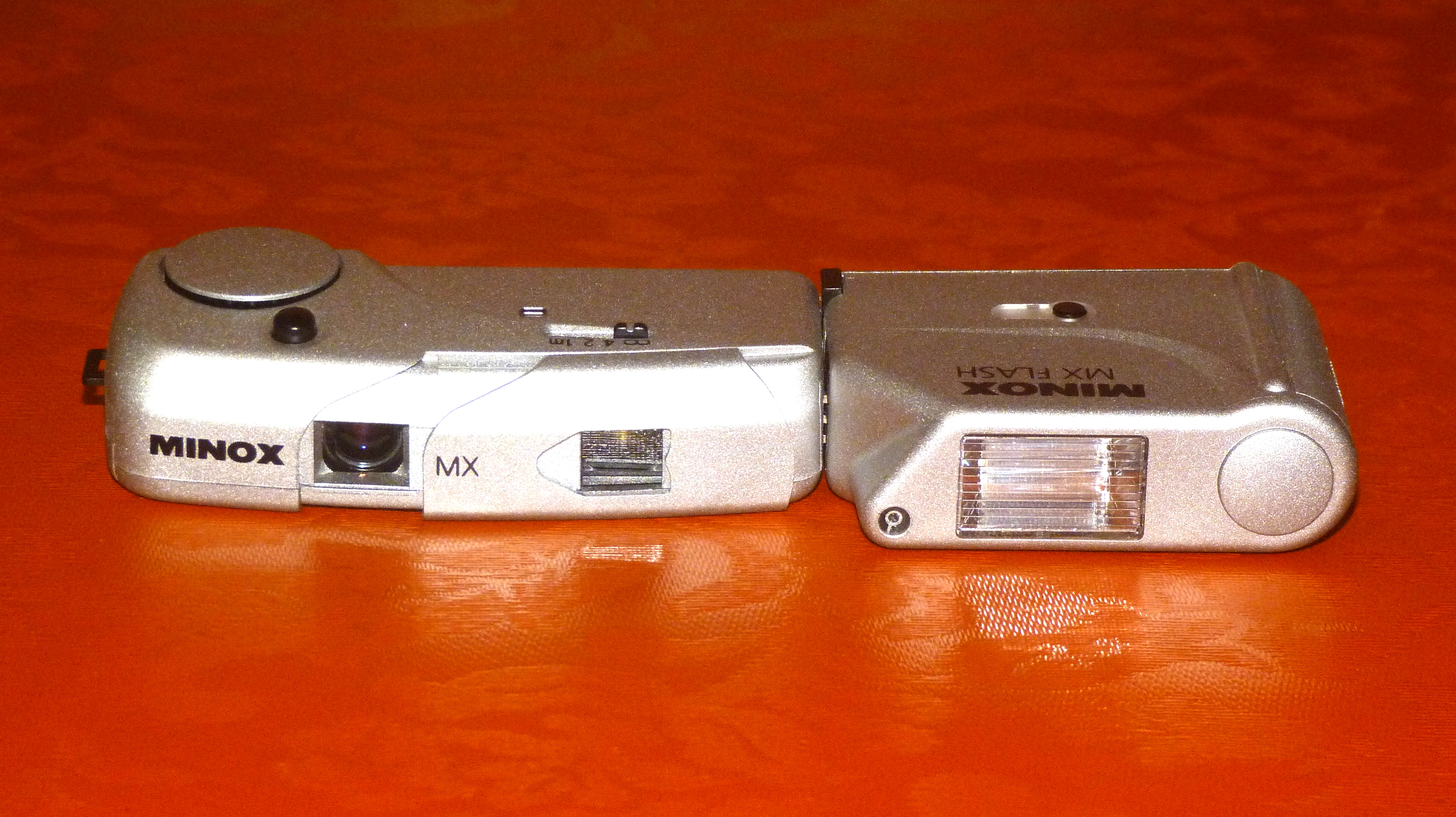 Minox MX set, with Minox MX 8x11 camera and Minox MX flash